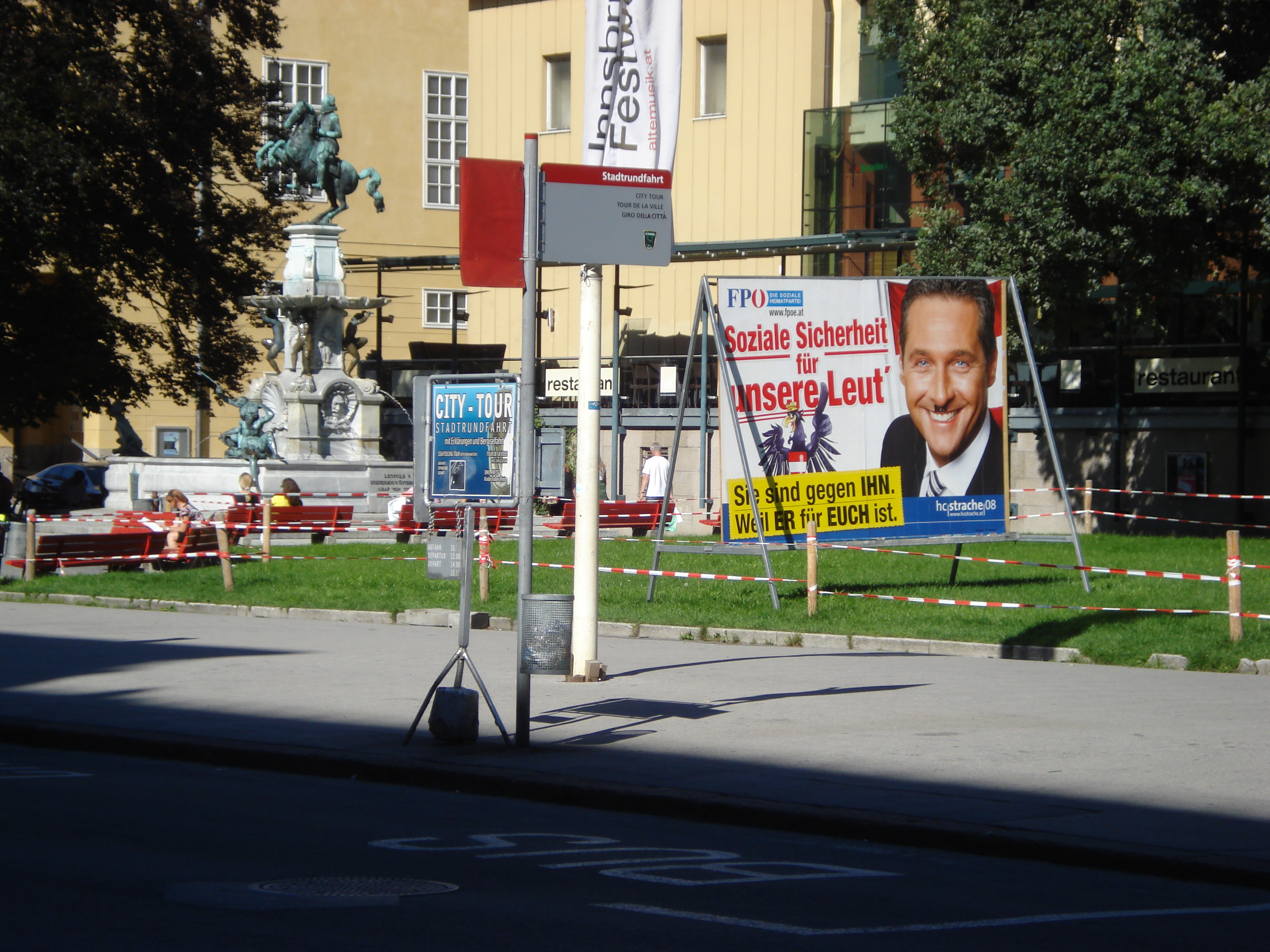 A billboard promoting the Freedom Party of Austria in Innsbruck.